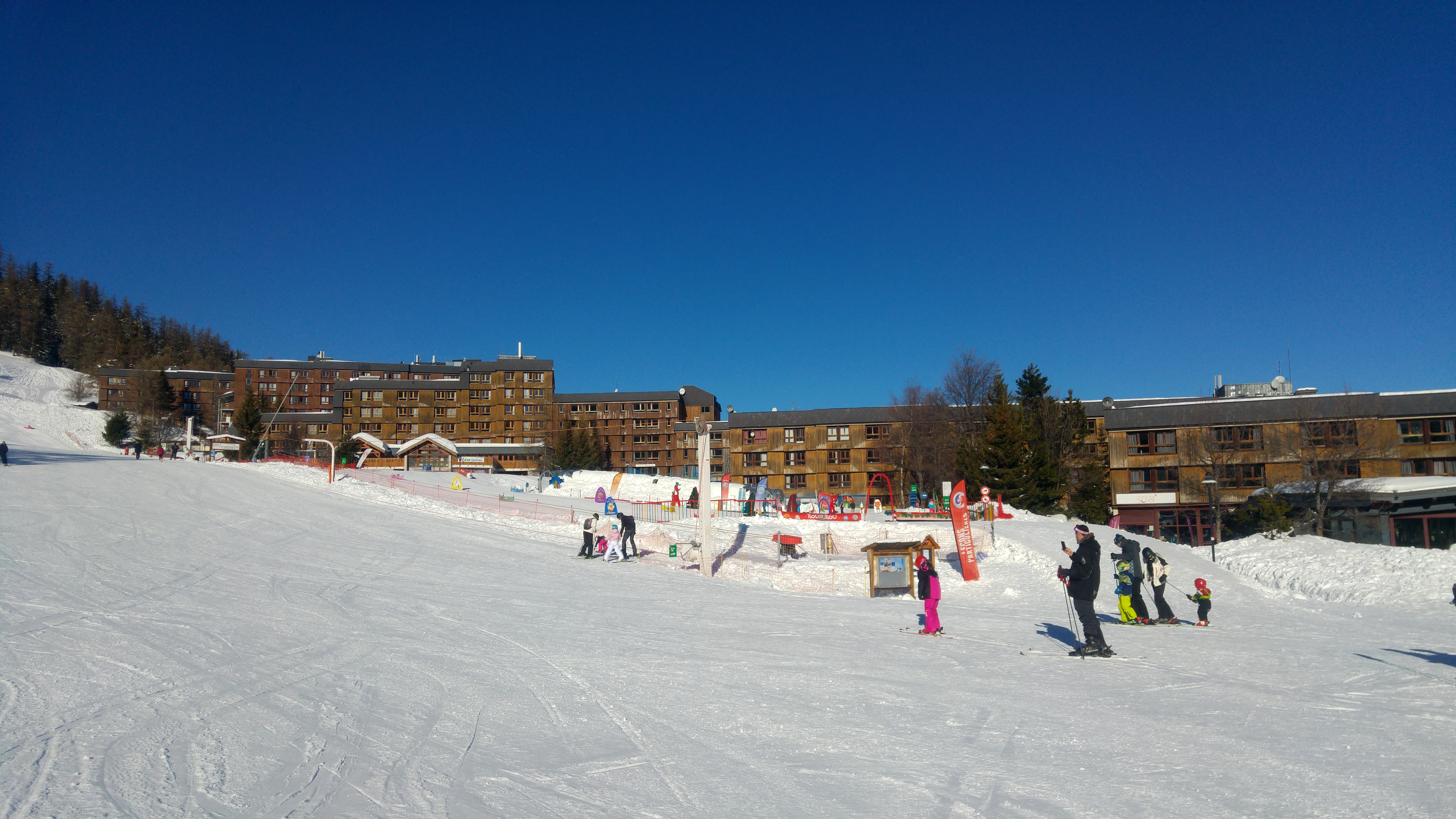 Ski station Les Karellis in winter, seen from the bottom of the ski slopes.